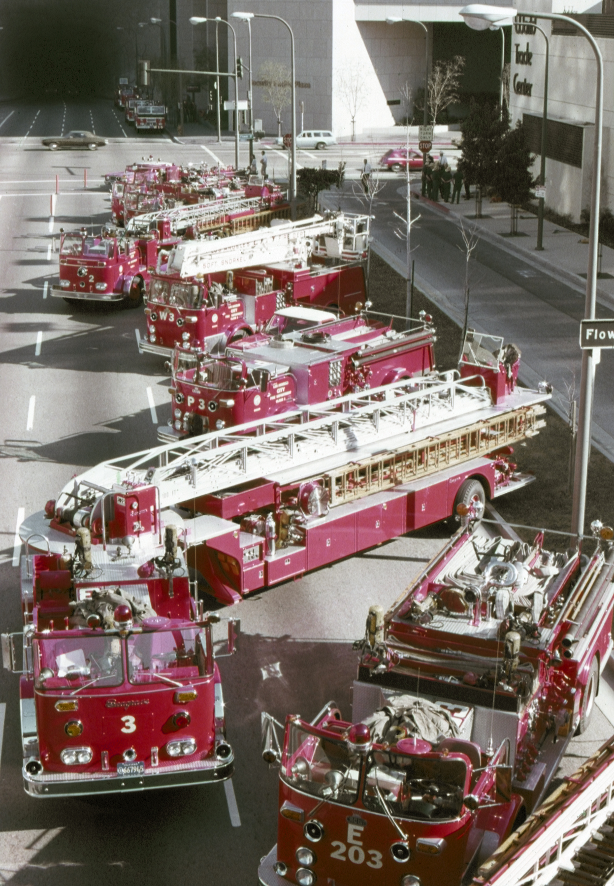 Los Angeles City Fire Department Sunday morning training in downtown Los Angeles. (Scanned from EastmanColorRGB-100 Slide)